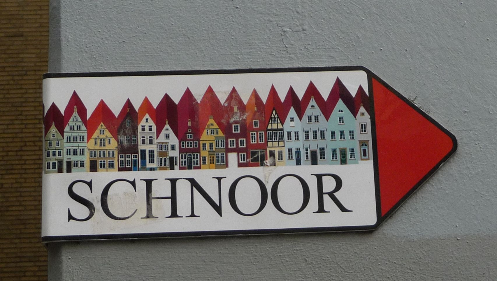 Schnoor (street in Bremen, Germany)